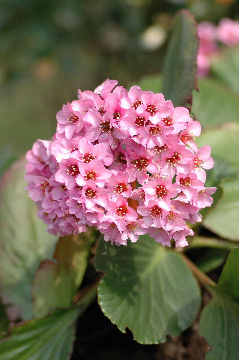 Photograph of Bergenia stracheyi, taken in Tama city, Tokyo, Japan.